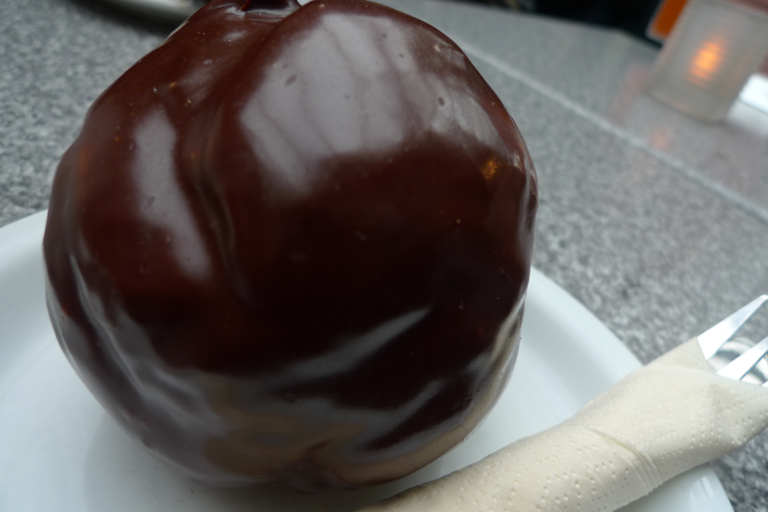 A Bossche bol